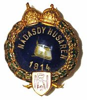 9. Nádasdy Huszárezred zománcos jelvénye.